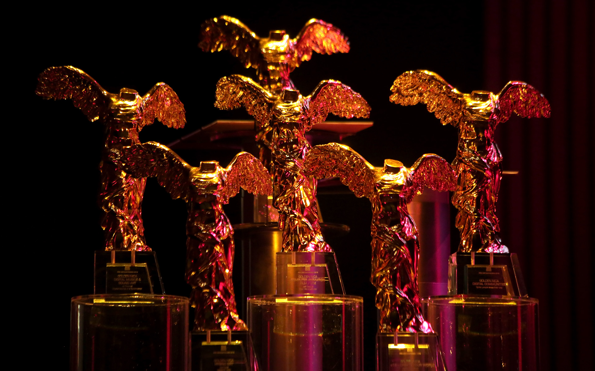 Prix Ars Electronica 2012, Brucknerhaus in Linz, Upper Austria.